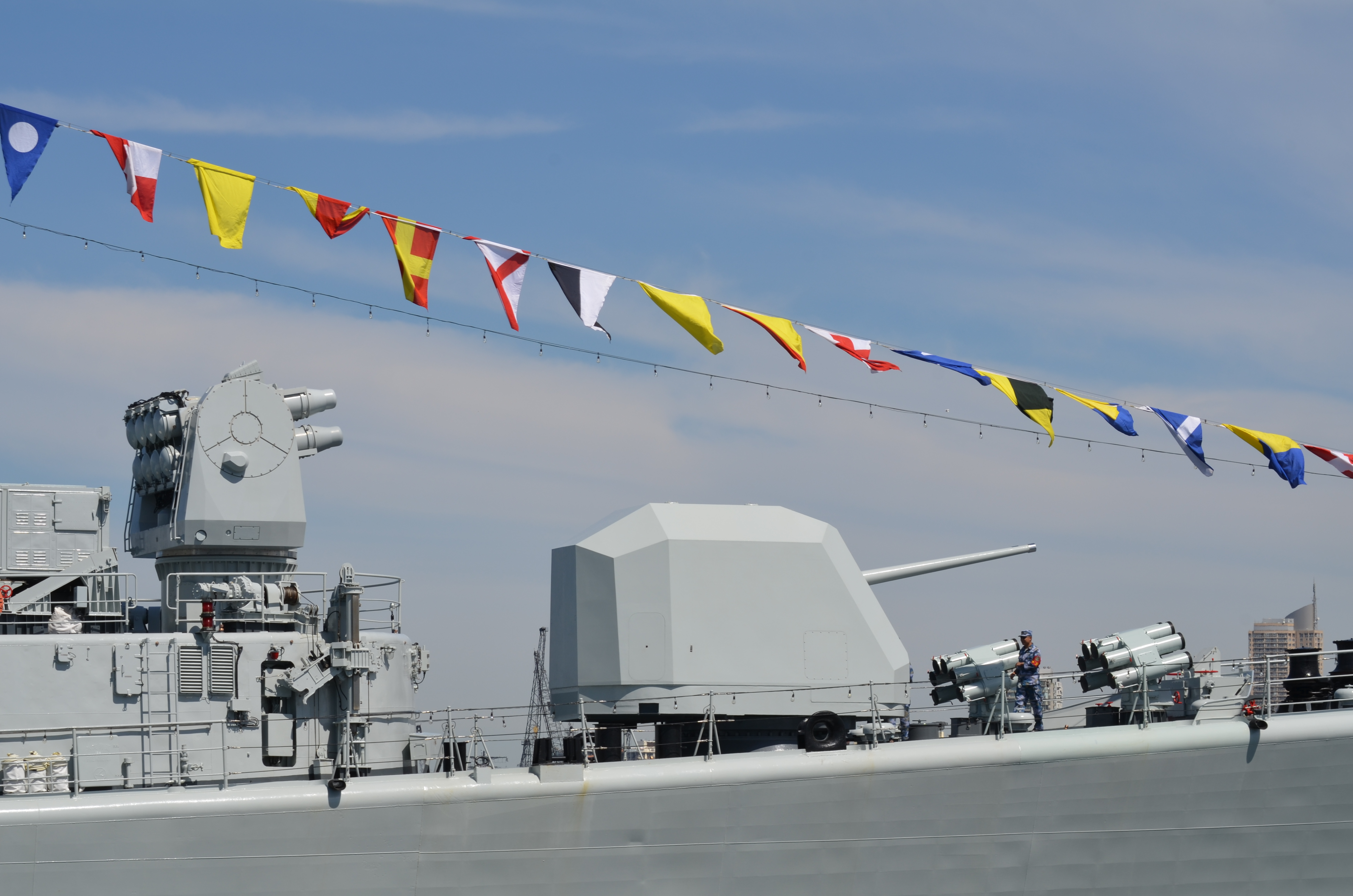 Photographs taken during day 3 of the Royal Australian Navy International Fleet Review 2013. Forward weapons of the Chinese destroyer Qingdao: HQ-7 missile launcher (left), Type H/PJ33A dual 100 mm/56 dual purpose gun